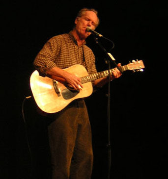 Picture of Loudon Wainwright III performing at the Kent State Folk Festival in Kent, Ohio, on November 18, 2006.